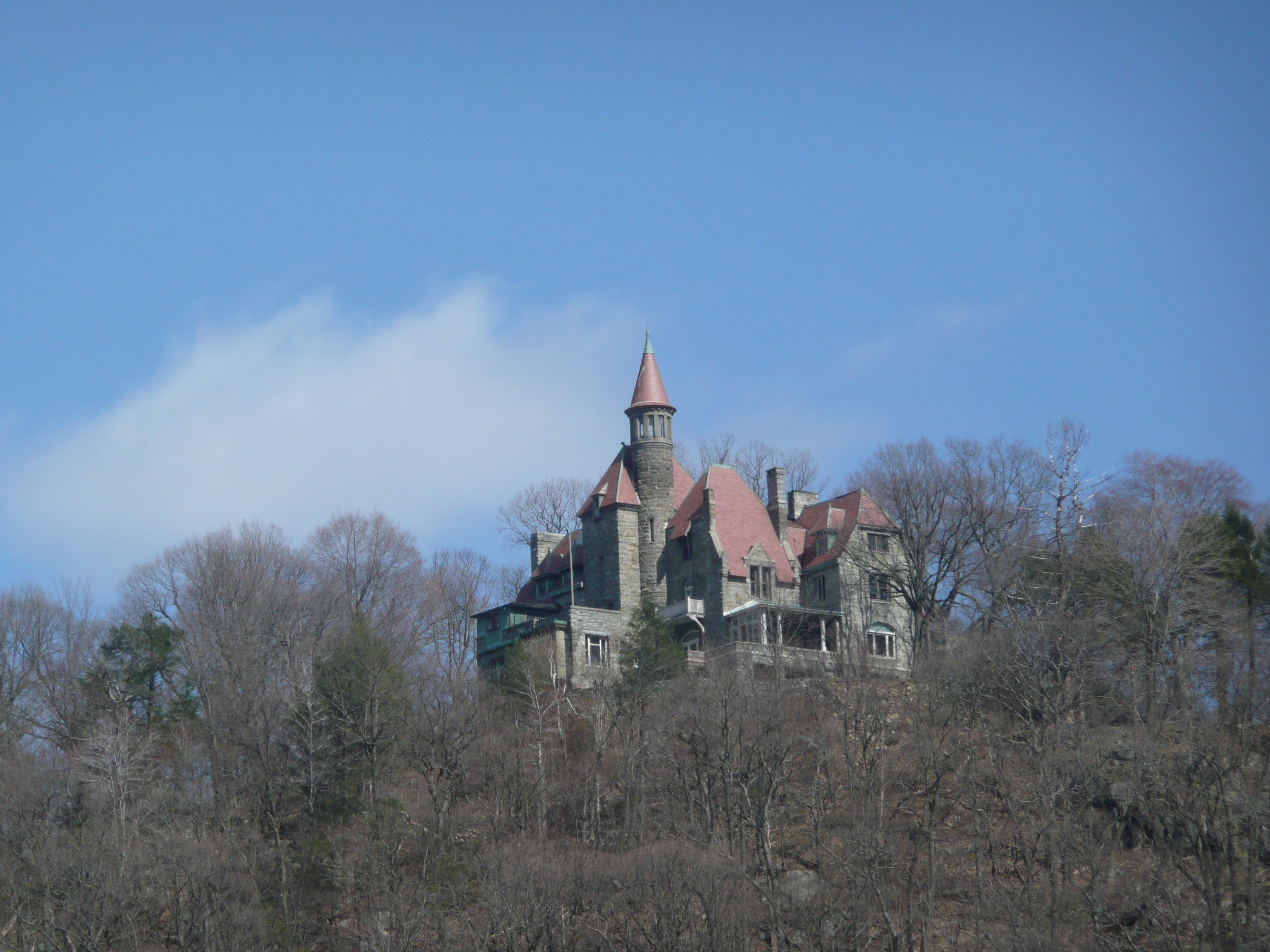 This is a photo I took of Castle Rock in Garrison, New York. My family and I have been fascinated by this house which we have been driving past for years on our way to visit family in the area. Last week I stopped to take some good quality pictures of it, and upon discovering the house had its own Wikipedia page, promptly uploaded one of them so there can be a quality image of the house for everyone to see.